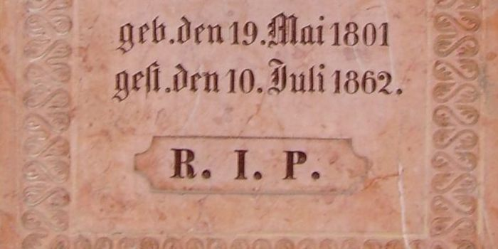 graveyard in Salzburg, Austria